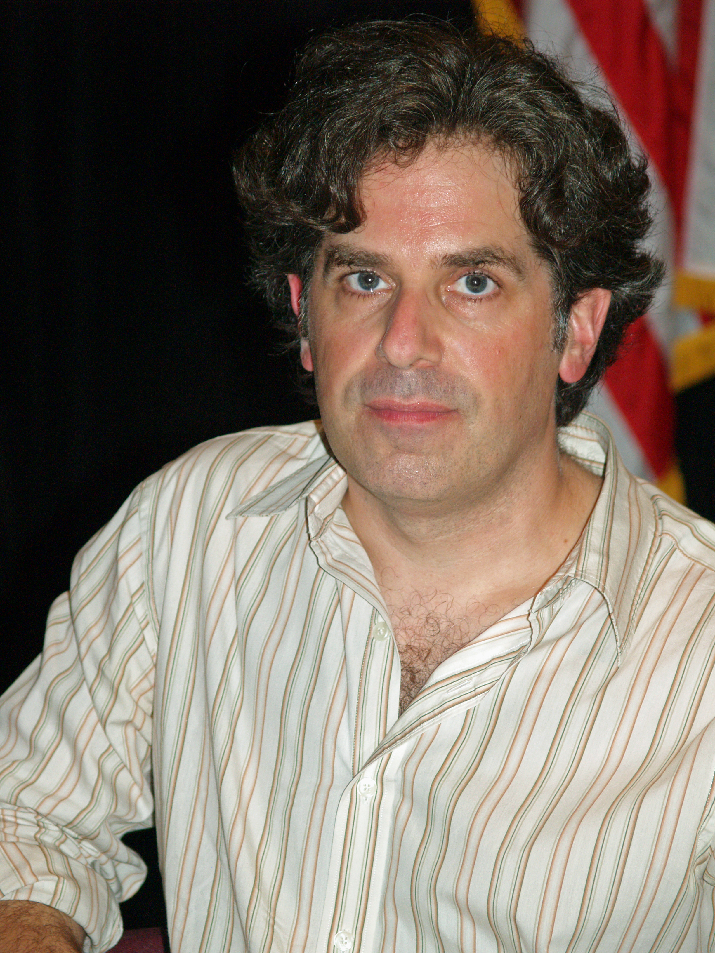 Jonathan Lethem at the 2008 Brooklyn Book Festival in New York City.The photographer dedicates this portrait to Erik Möller, who as Deputy Director of the Wikimedia Foundation has provided invaluable off-wiki assistance and help for many Wikipedians and the community, and who is himself a talented writer in articulating the principles of freedom behind the project. He drafted the initial project proposal for Wikinews.